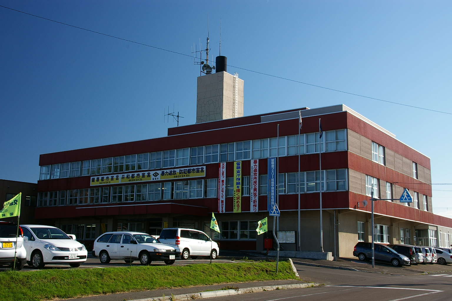 Rumoi city office.